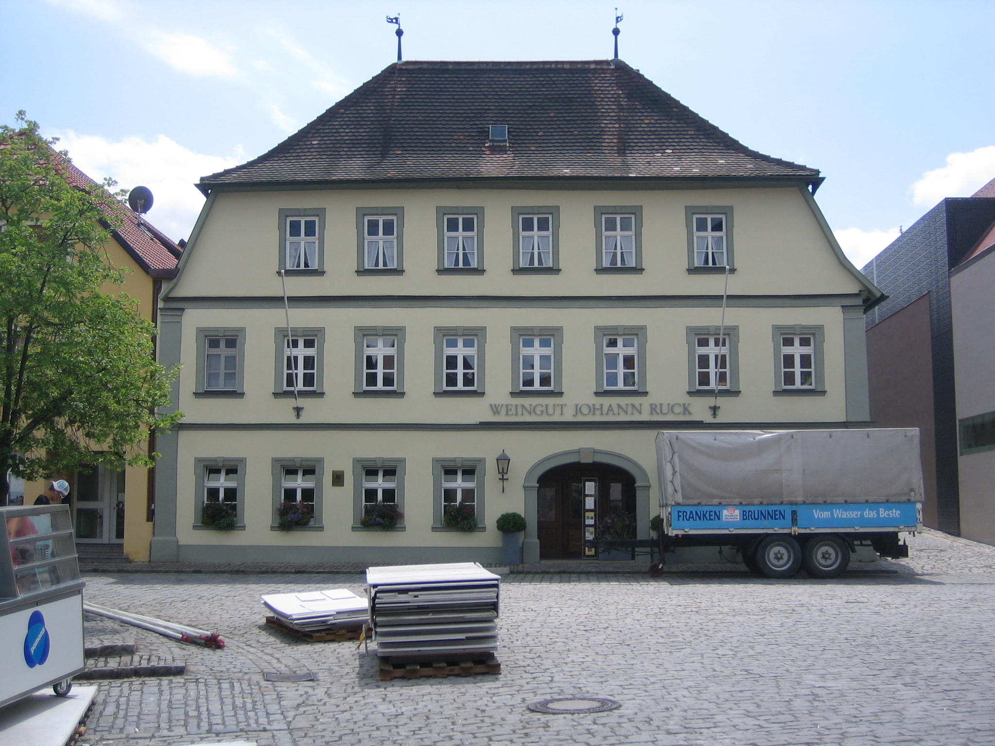 Winery Johann Ruck in Iphofen, Franconia, Germany